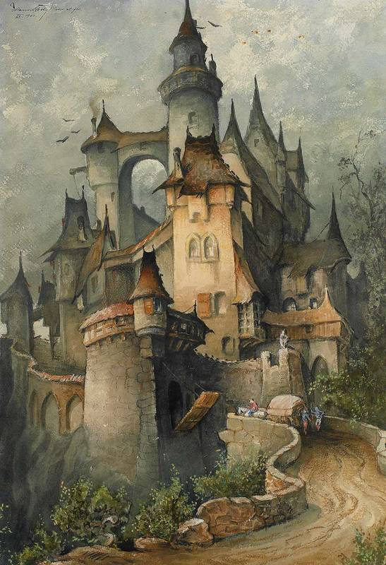 Hanns Bolz: Romantic Castle 1903 (Watercolor)